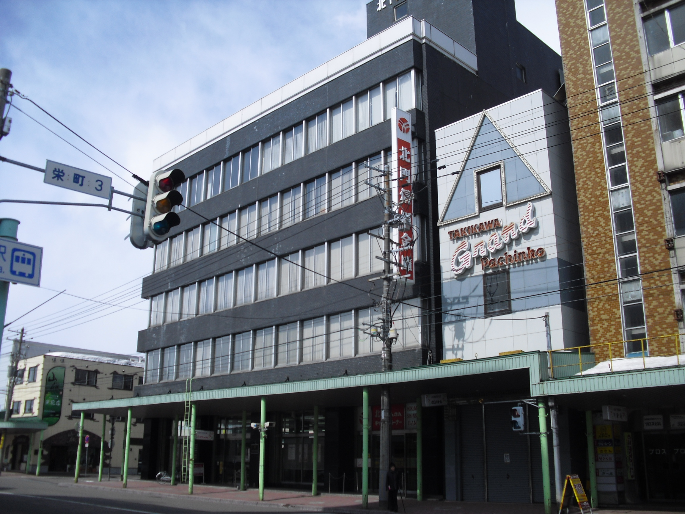 Hokumonshinyokinko bank